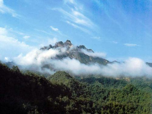 a beautiful scenery in Baiyun mountain Fuan,Fujian,China